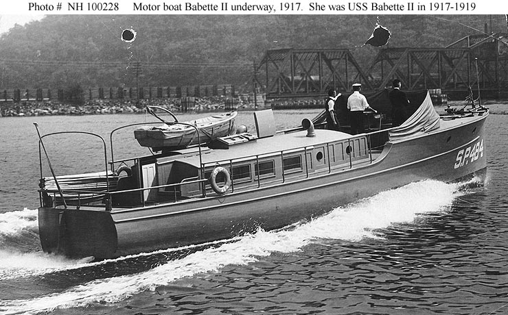 The motorboat Babette II, probably while running trials near Morris Heights, the Bronx, New York, prior to her United States Navy service as patrol vessel . She already bears the section patrol number "SP-484" on her bow.